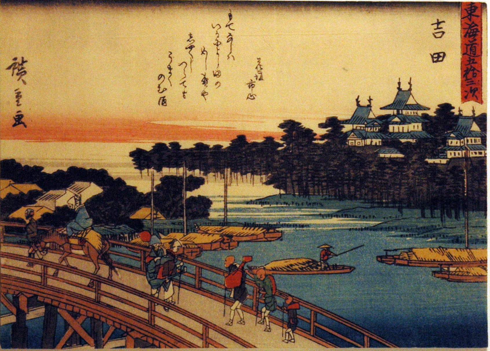 Accession Number: 1965.92.35 Display Artist: Utagawa Hiroshige Display Title: Yoshida Series Title: "Fifty-three Stations of the Tokaido Road, known as "Kyoka Tokaido"" Suite Name: Tokaido gojusantsugi Creation Date: 1838-1840 Height: 5 3/4 in. Width: 8 in. Display Dimensions: 5 3/4 in. x 8 in. (14.61 cm x 20.32 cm) Publisher: Sanoya Kihei Credit Line: Gift of Mrs. Harold Rhody Witherbee Collection: The San Diego Museum of Art